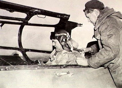 Kimpo, South Korea. 1951-11-28. Air Vice-Marshal Bladin being strapped into rear seat of RAAF Meteor 7 aircraft by Leading Aircraftman L. Cronin A145, prior to takeoff on his flight to the front line.